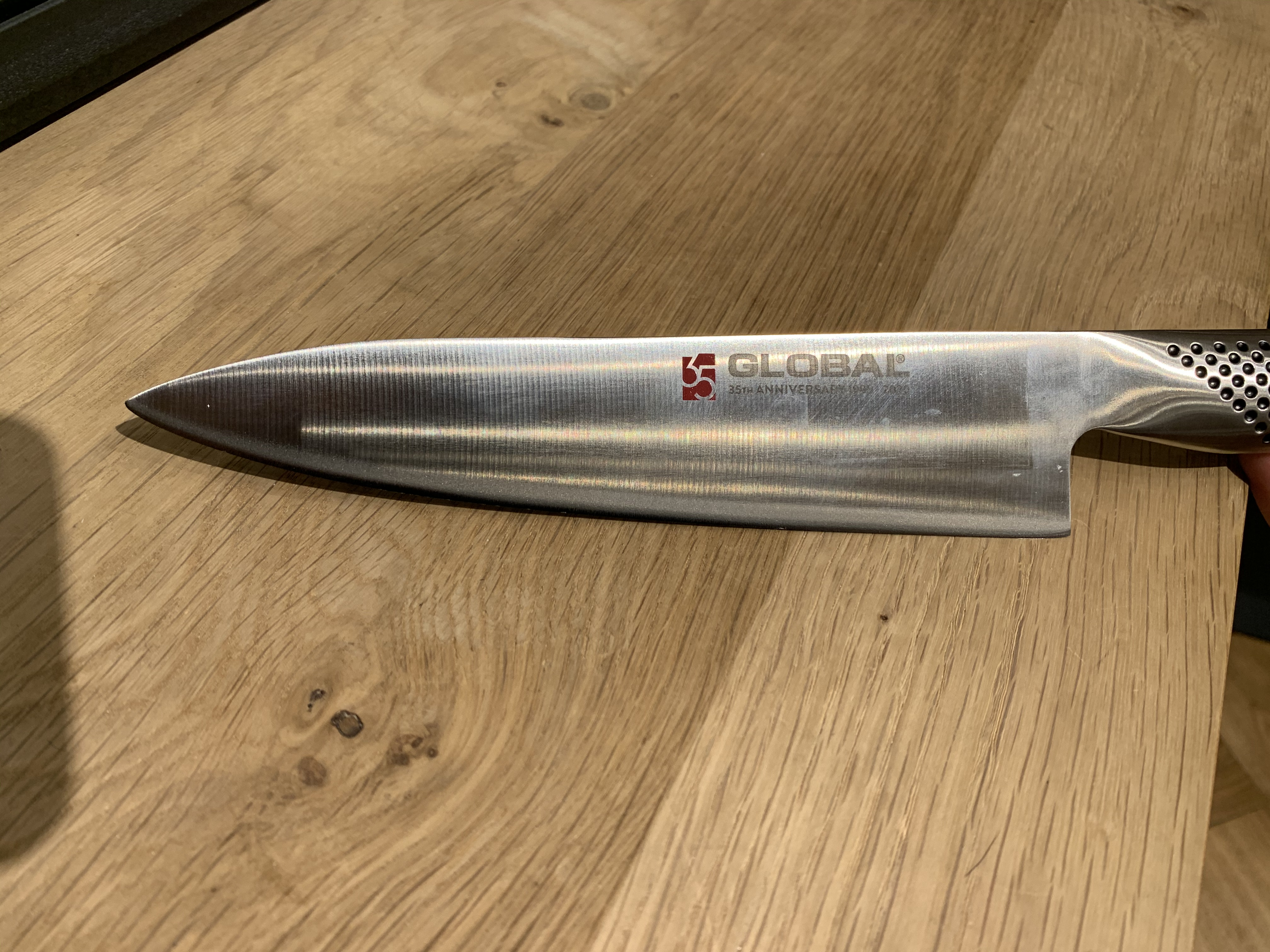 Depicted here is a GLOBAL Classic 35th Anniversary Edition chef's knife, specifically displaying the blade and the aesthetics of the blade.